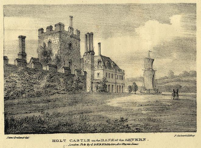 An old illustration of Holt Castle in Worcestershire.